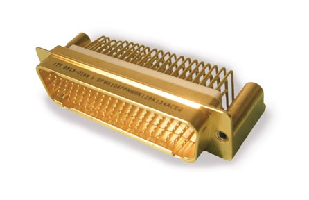 This is an ITT CS800 D-sub connector